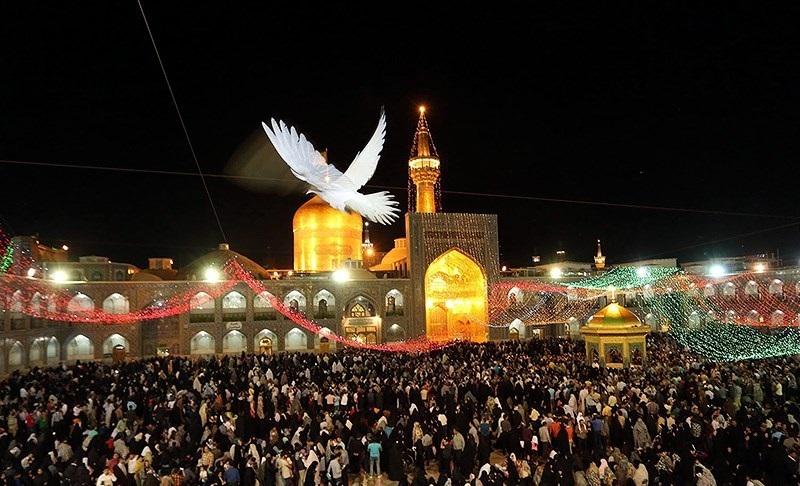 Imam Reza Shrine, Mashhad, Iran